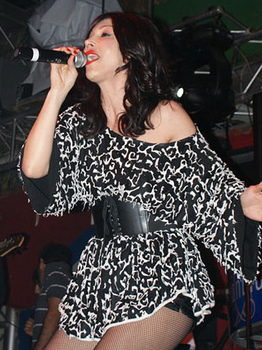 Turkish pop singer Hande Yener in concert in the Areena Marmaris, May 09 2009